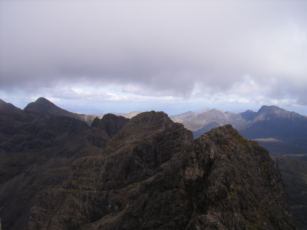 Looking along the main Cuillin Ridge from Sgurr a'Mhadaidh, with Blaven beyond to the right.